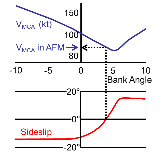 Graph